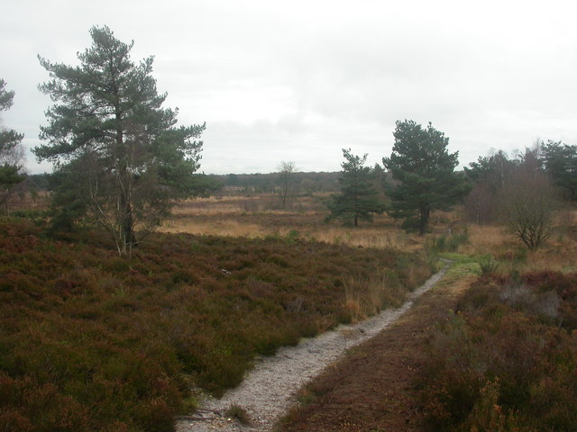 Parley Common Most of Parley Common is managed by the Herpetological Conservation Trust as a nature reserve.